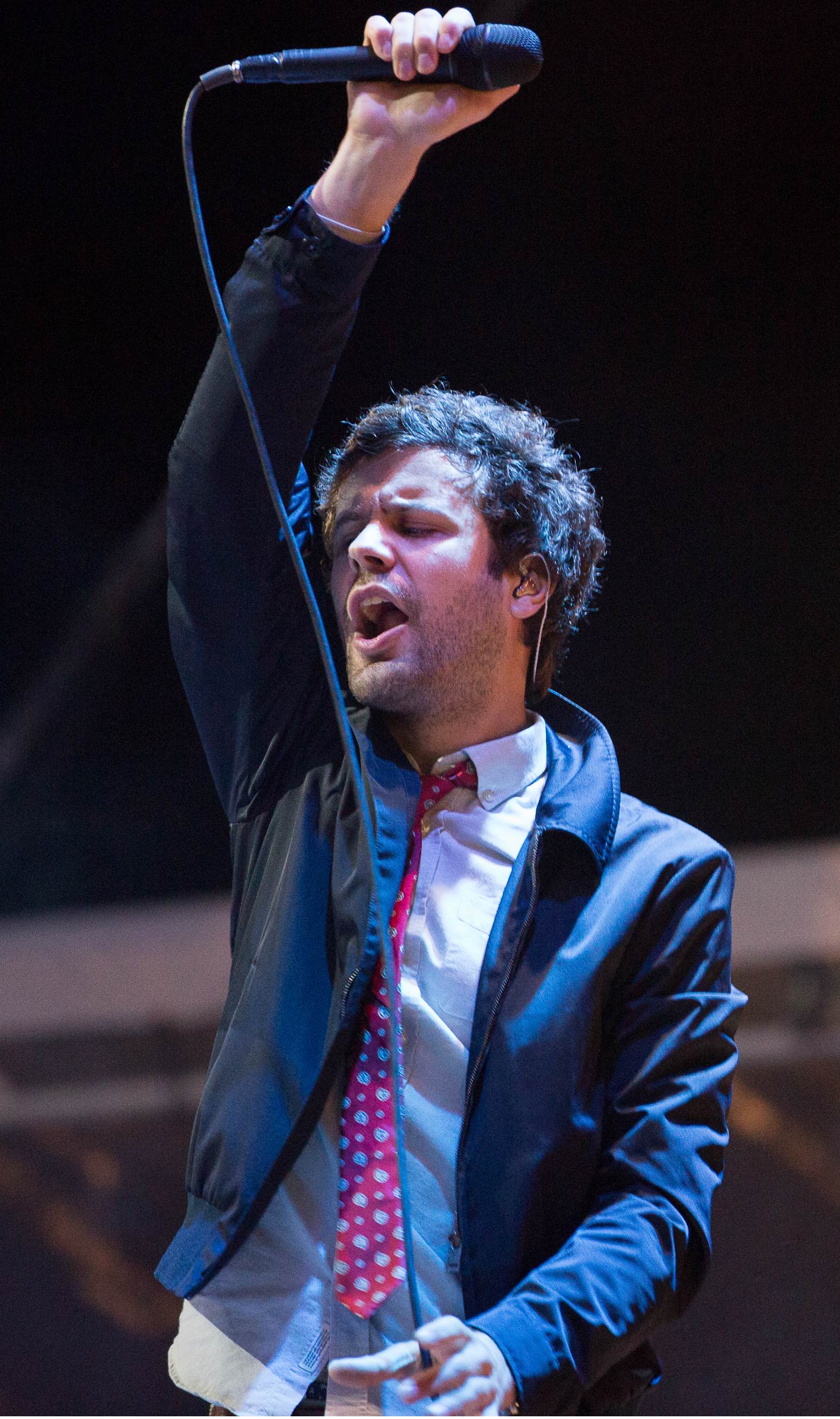 Michael Angelakos playing at Lipton's Be More Tea Festival on the brand's 125th anniversary on Oct. 24, 2015, at the Riverfront Park at Naval Yard in North Charleston, South Carolina.